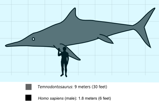 A comparison of the body sizes between an Temnodontosaurus and an adult male human.